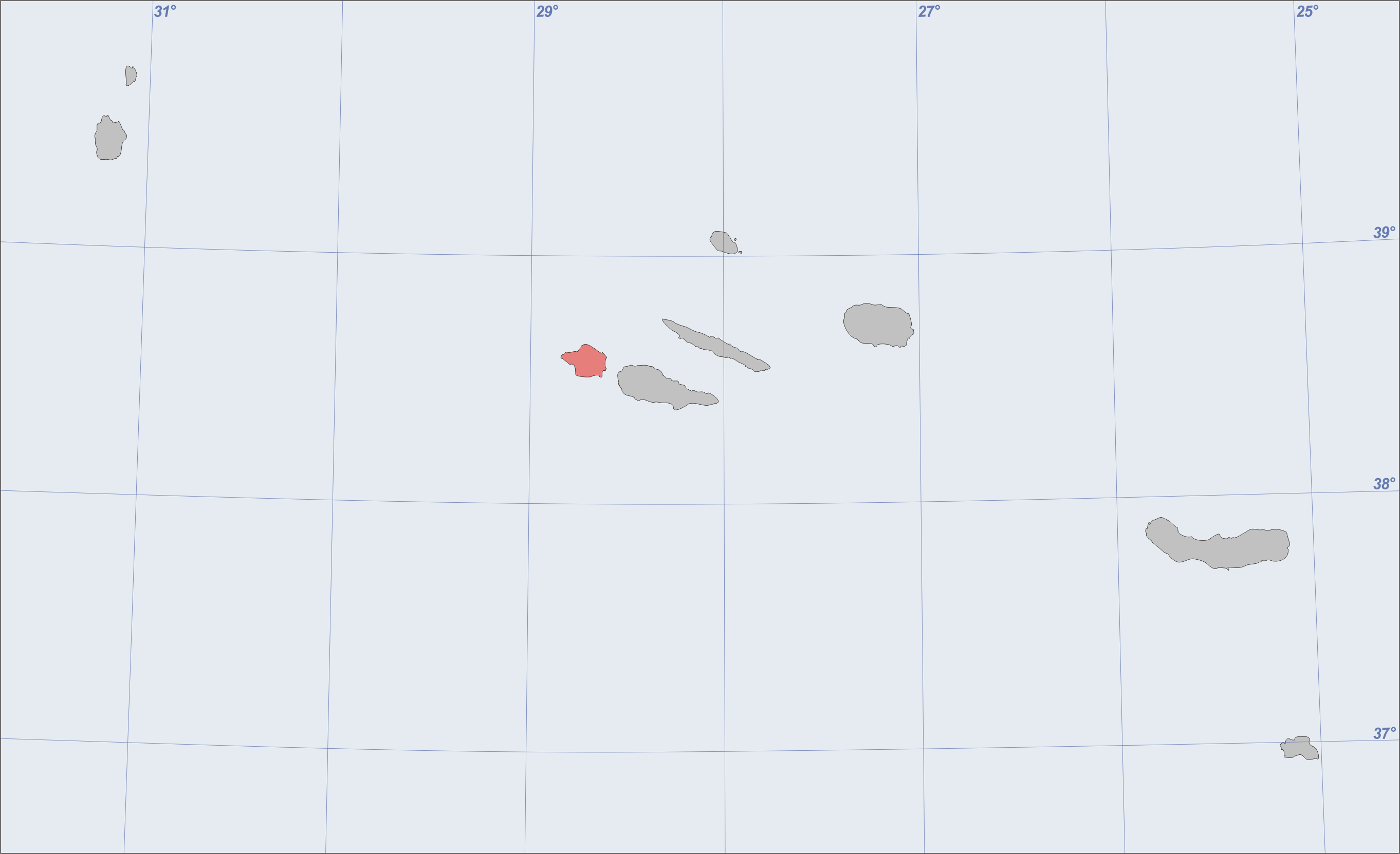 Position of Faial Island, Azores drawn by varp